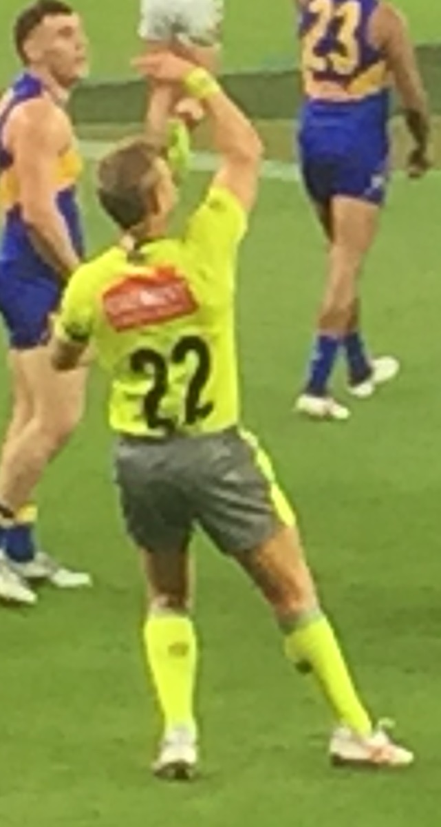 Australian rules football umpire Nathan Williamson umpiring a 2018 match at Perth Stadium between the West Coast Eagles and the Essendon Bombers.